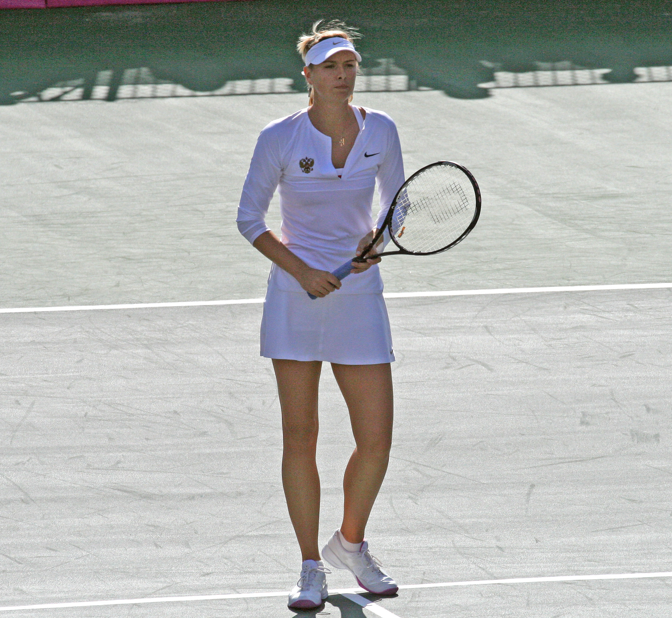 Maria Sharapova in Russian team uniform warming up before Fed Cup match with Tsipora Obziler